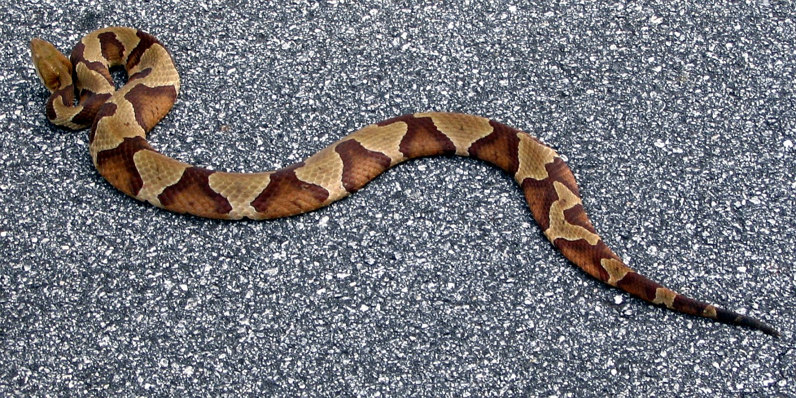 Photo of an American Copperhead taken in Covington, Georgia, USA, at the entrance to Bert Adams Scout Reservation.